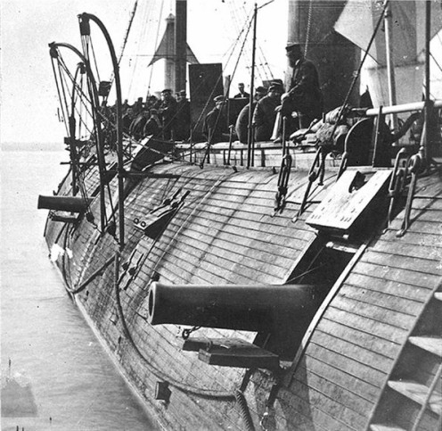 Portside of USS Galena during the actions at Drewry's Bluff on 15 May 1862